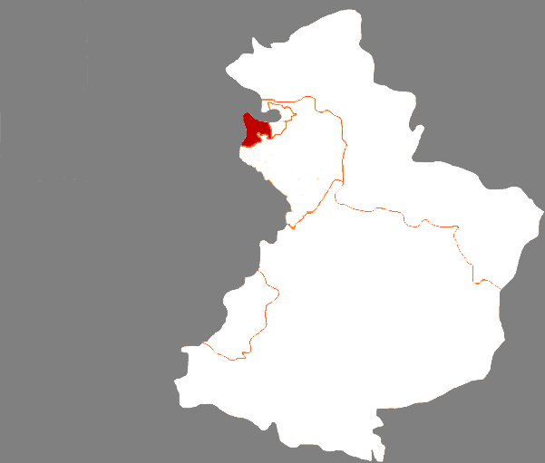 Location of Xishi district in Yingkou City, China